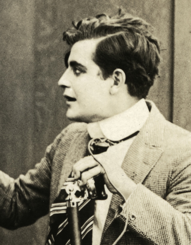 The actor W. E. Lawrence in a detail from a scene still for the 1915 silent drama Above Par.